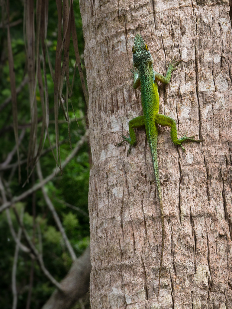 leach's anole on tree